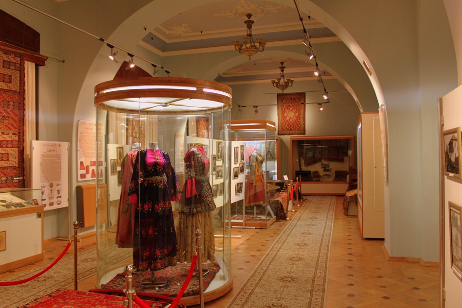 Baku museum history